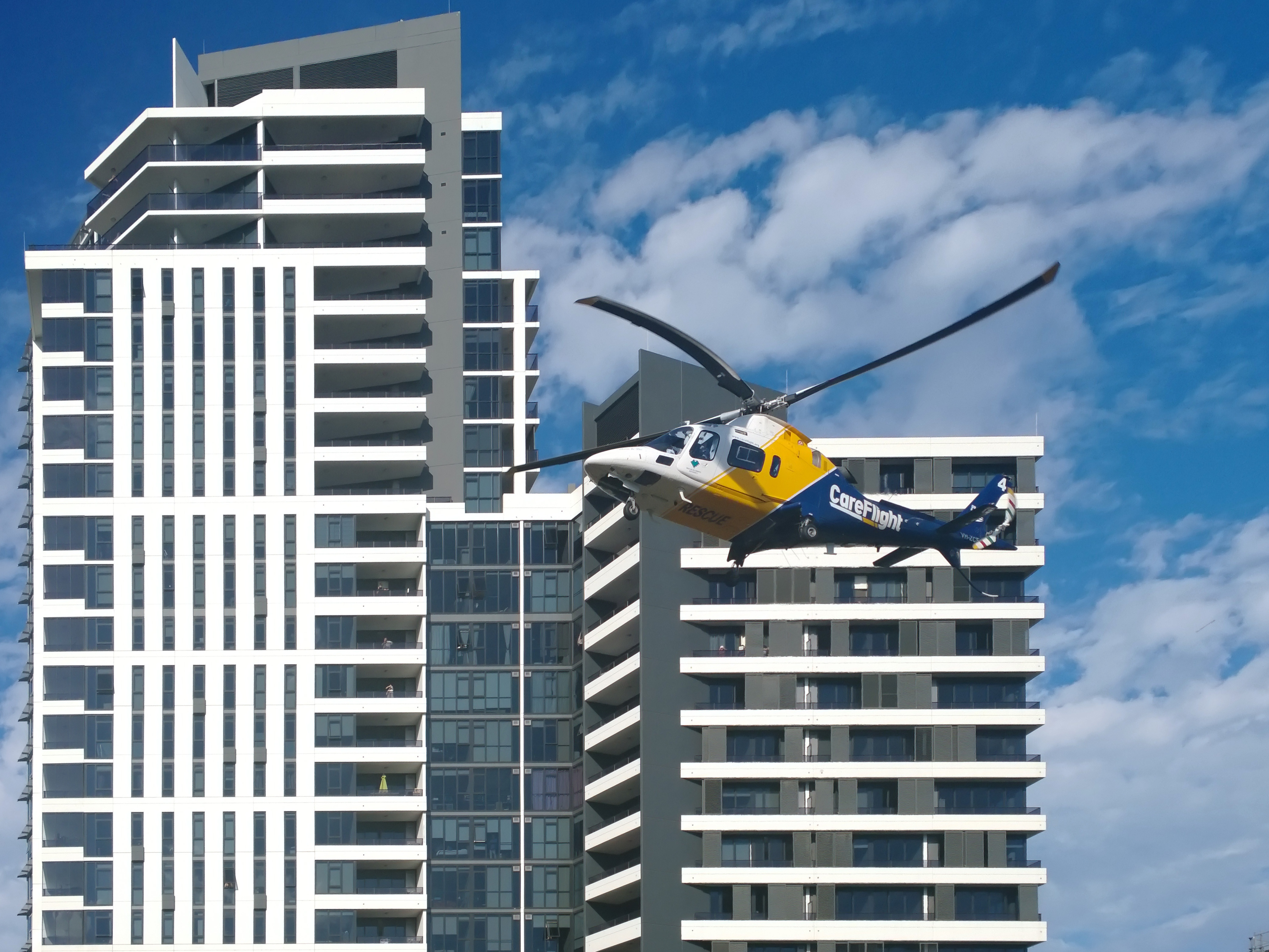 A CareFlight helicopter takes off from Sydney Olympic Park, NSW.